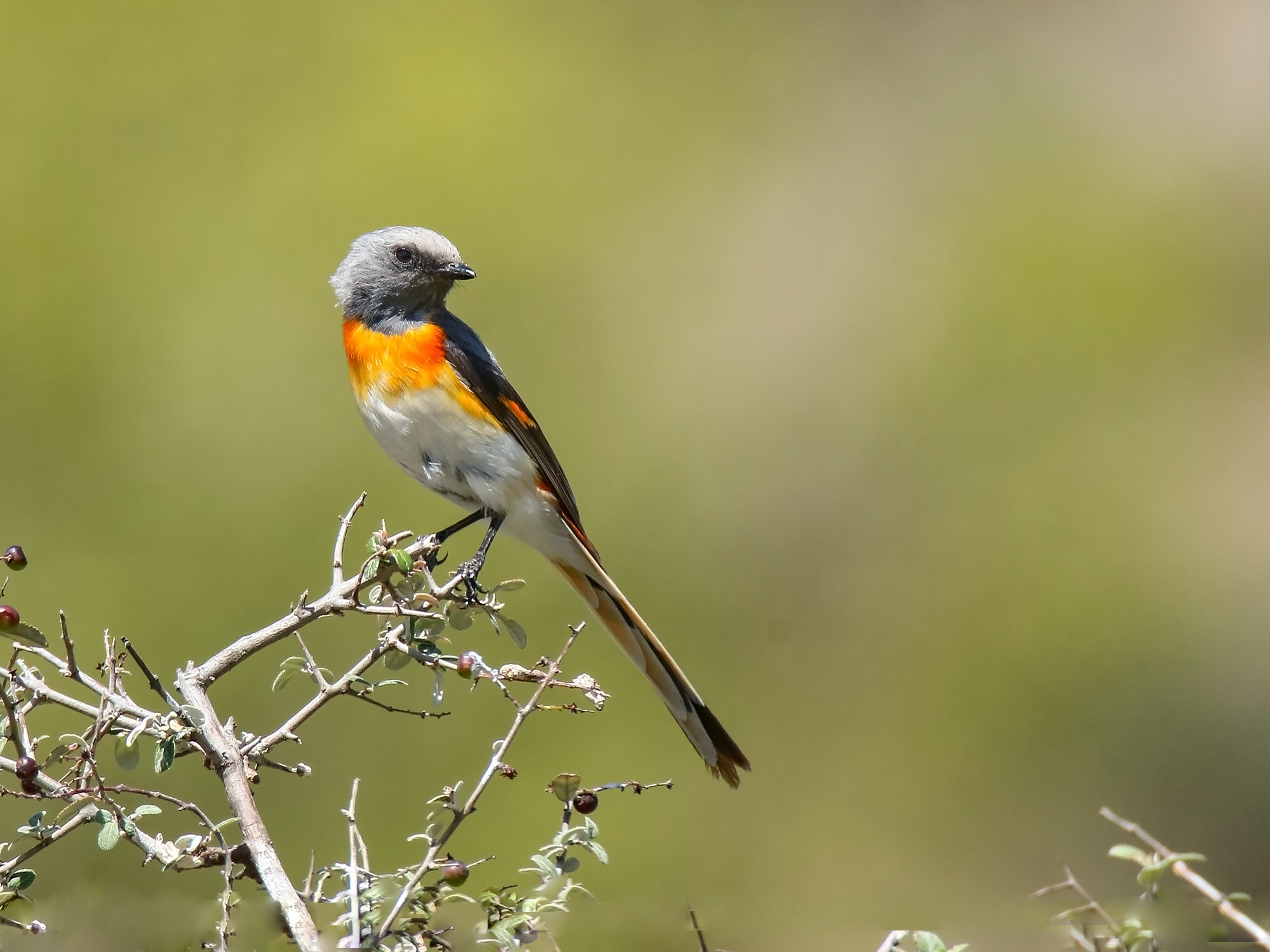 Small Minivet (Pericrocotus cinnamomeus) captured at Jabba Shah, Khushab, Punjab, Pakistan with Canon EOS 7D Mark II